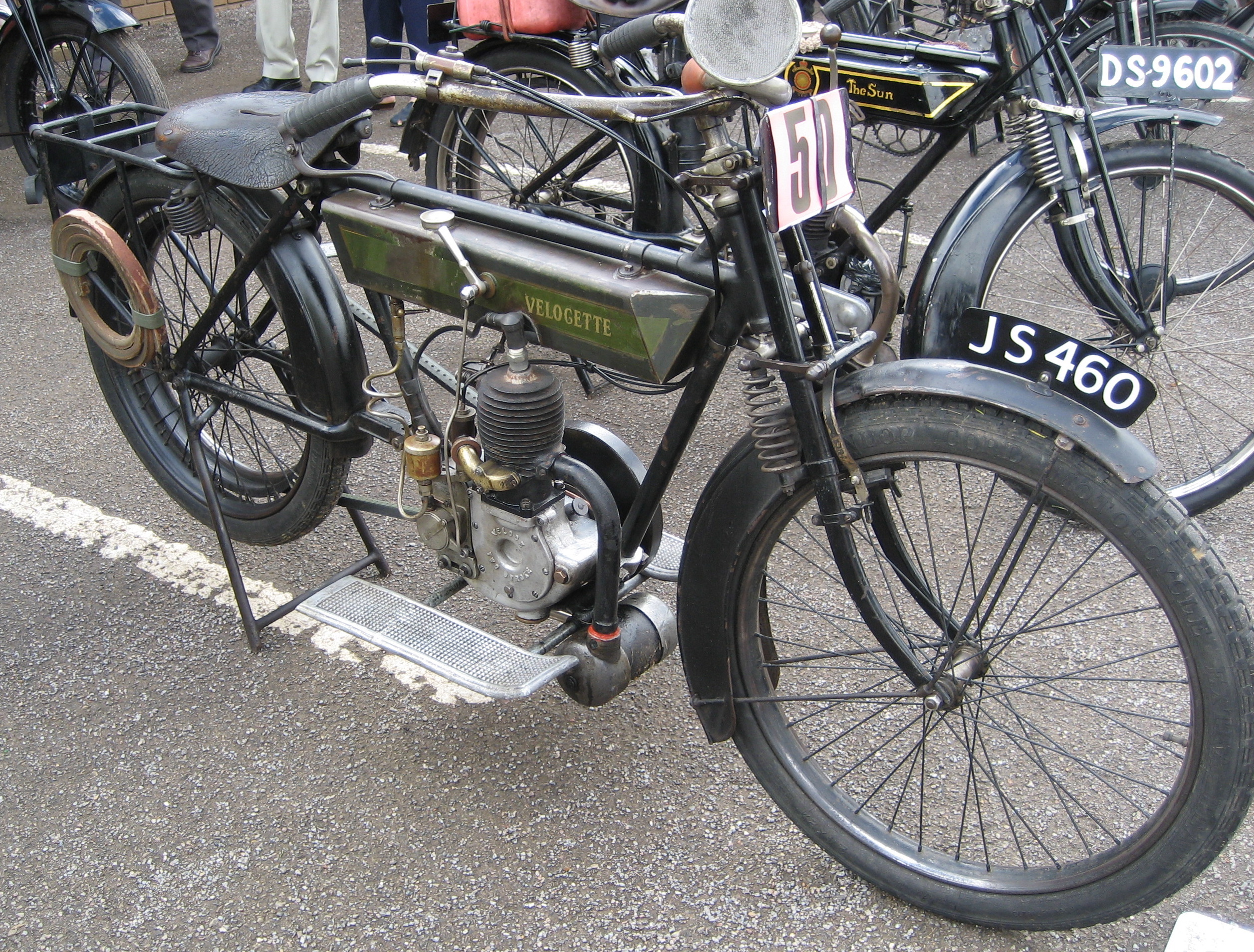 Photo I took at the 2007 Banbury Run of Ivan Rhodes' 1913 Velocette Model A